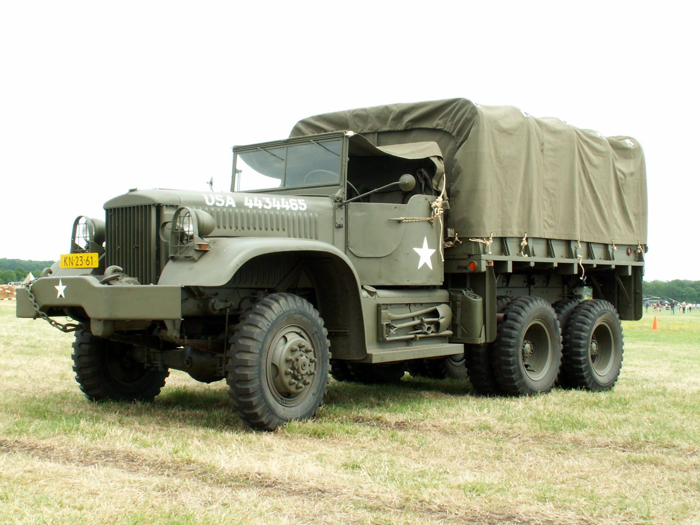 Diamond T Model 968A Cargo Truck (G509)